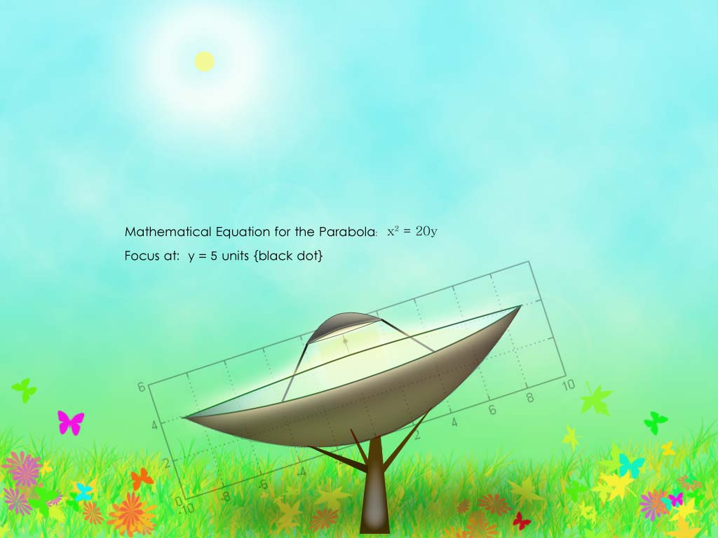 I have created this image. Available at Sun Energy World Blog —Creative Commons